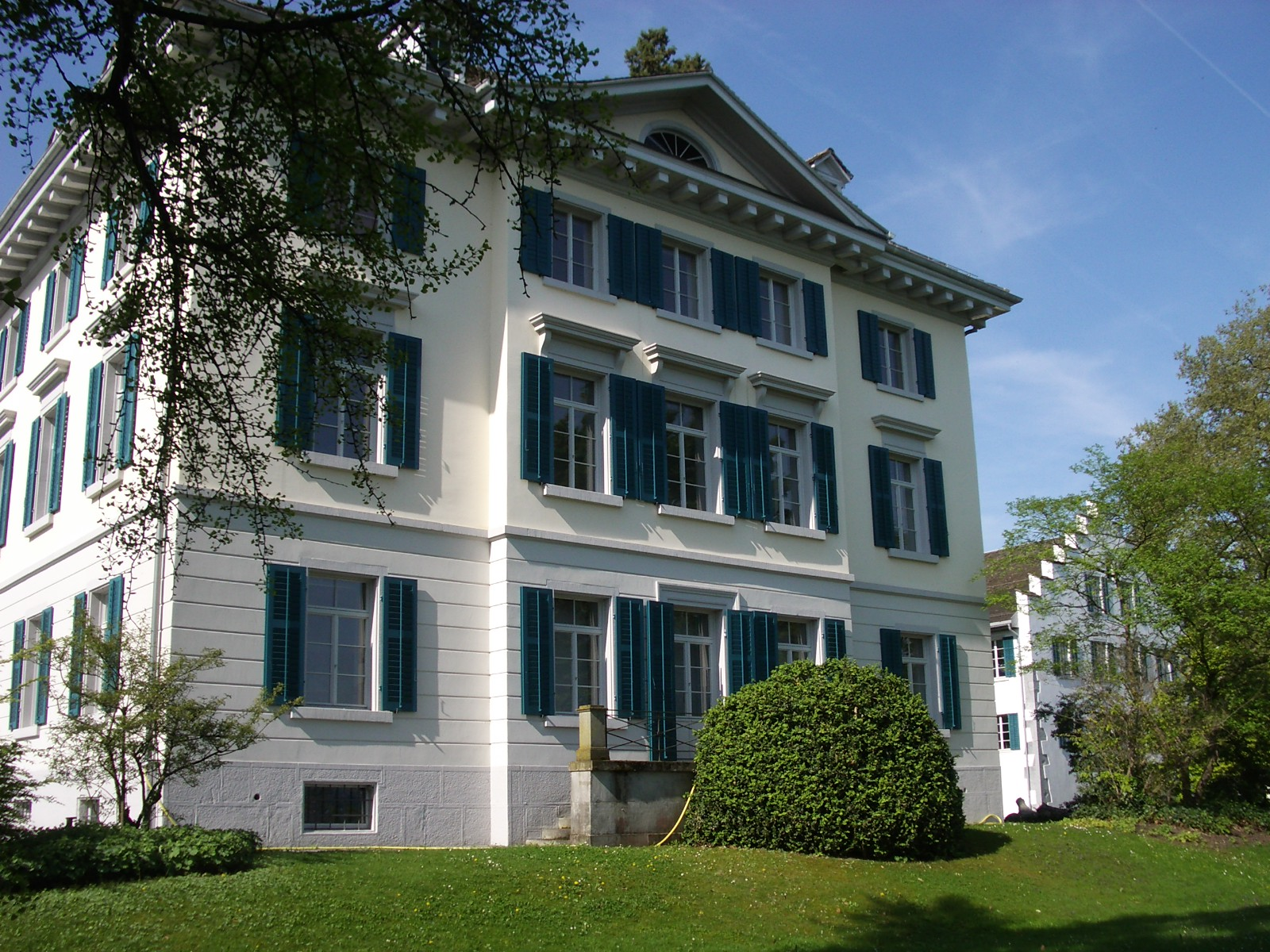 Wädenswil ZH, Switzerland